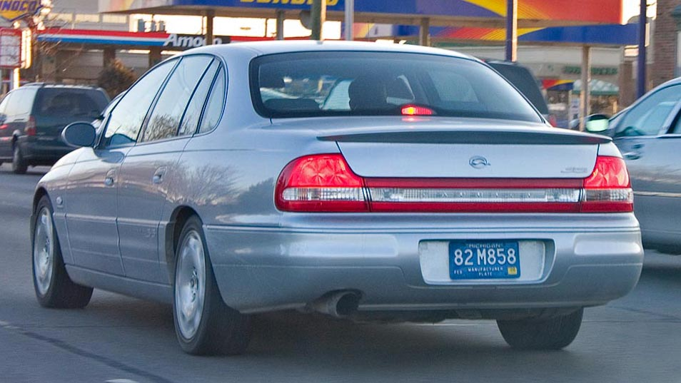 1999–2003 Chevrolet Caprice (SS) sedan, photographed in the United States. This vehicle is registered to General Motors in the state of Michigan as shown by the "MANUFACTURER PLATE" label on the registration plate, however this car was never officially sold in the United States.